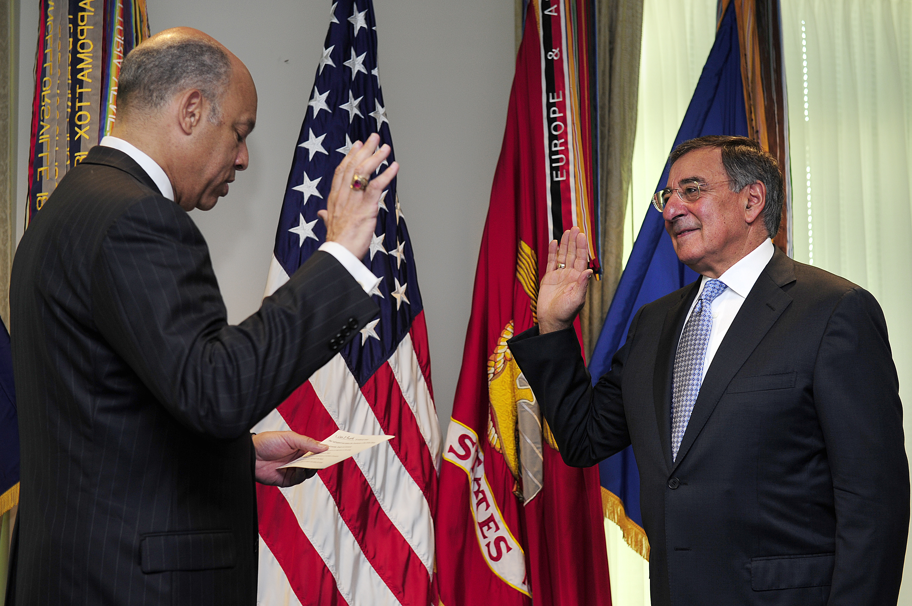 Leon E. Panetta, right, takes the oath of office as the 23rd U.S. secretary of defense during a Pentagon ceremony, July 1, 2011. Defense Department General Counsel Jeh Johnson administered the oath in the secretary’s office. DOD photo by U.S. Air Force Tech. Sgt. Jacob N. Bailey